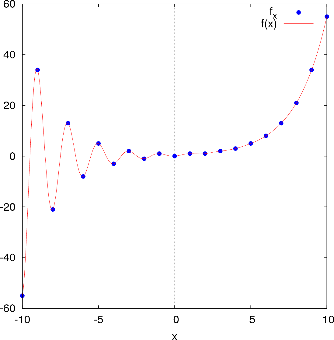 Plot of Fibonacci number function of a continuous variable.